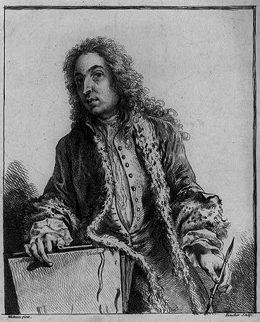 Portrait of Antoine Watteau (1684-1781) by François Boucher (1703-1770). Engraving.